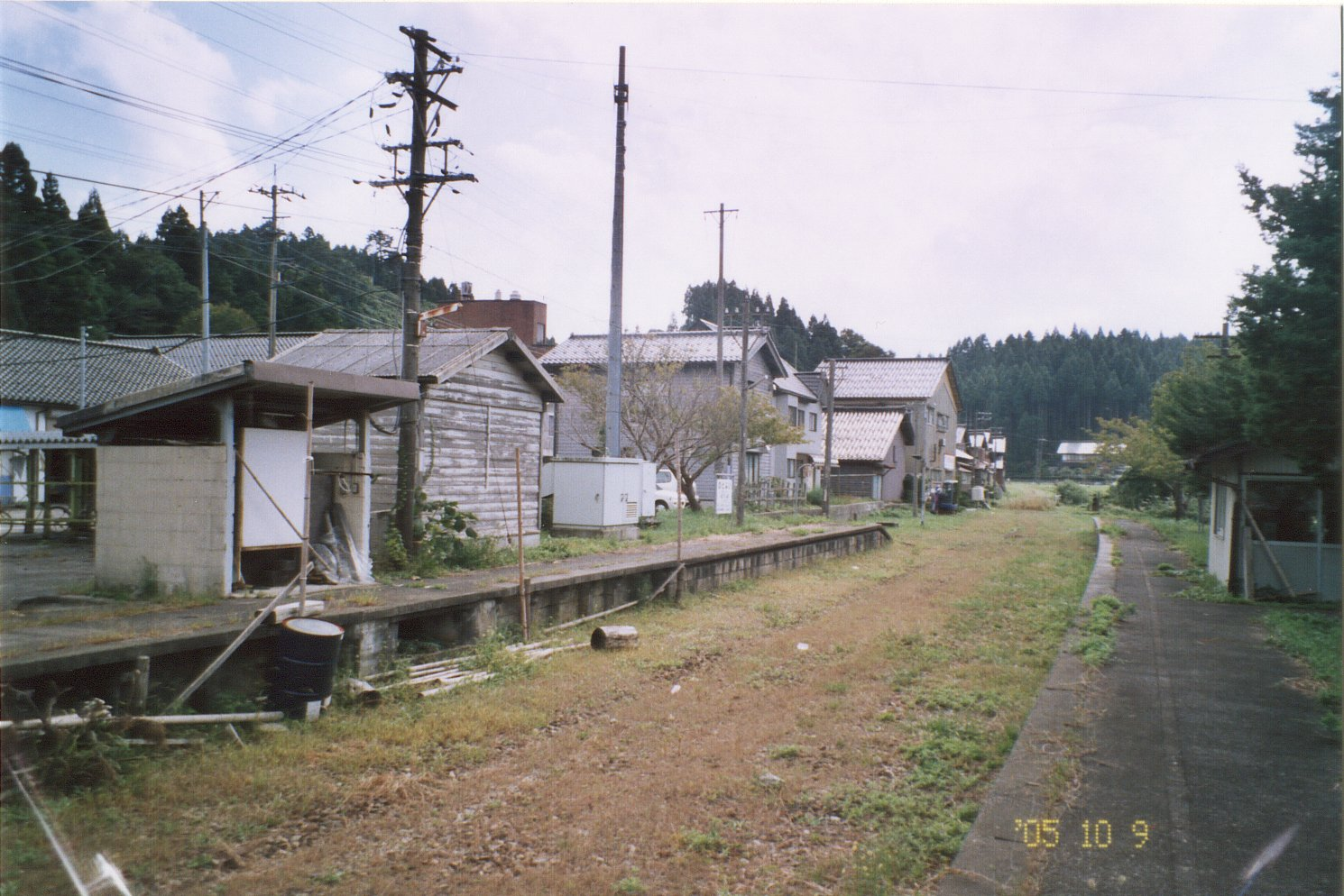 The remains of Noto-mii Station, Noto Railway on October 9, 2005.